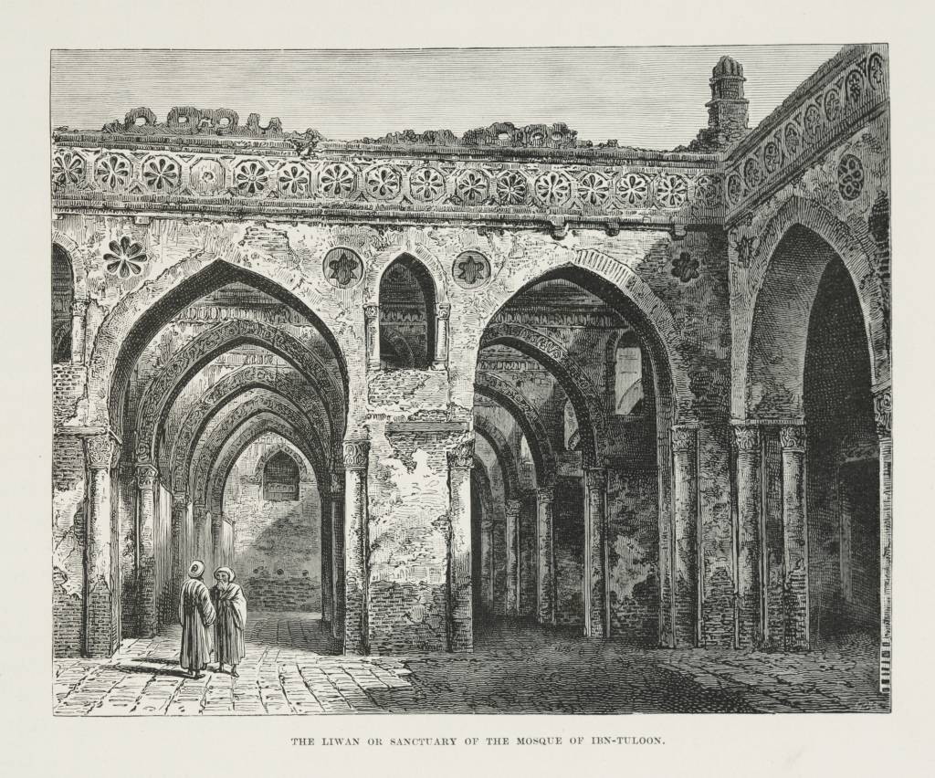 Liwan, or sanctuary area, of a mosque.